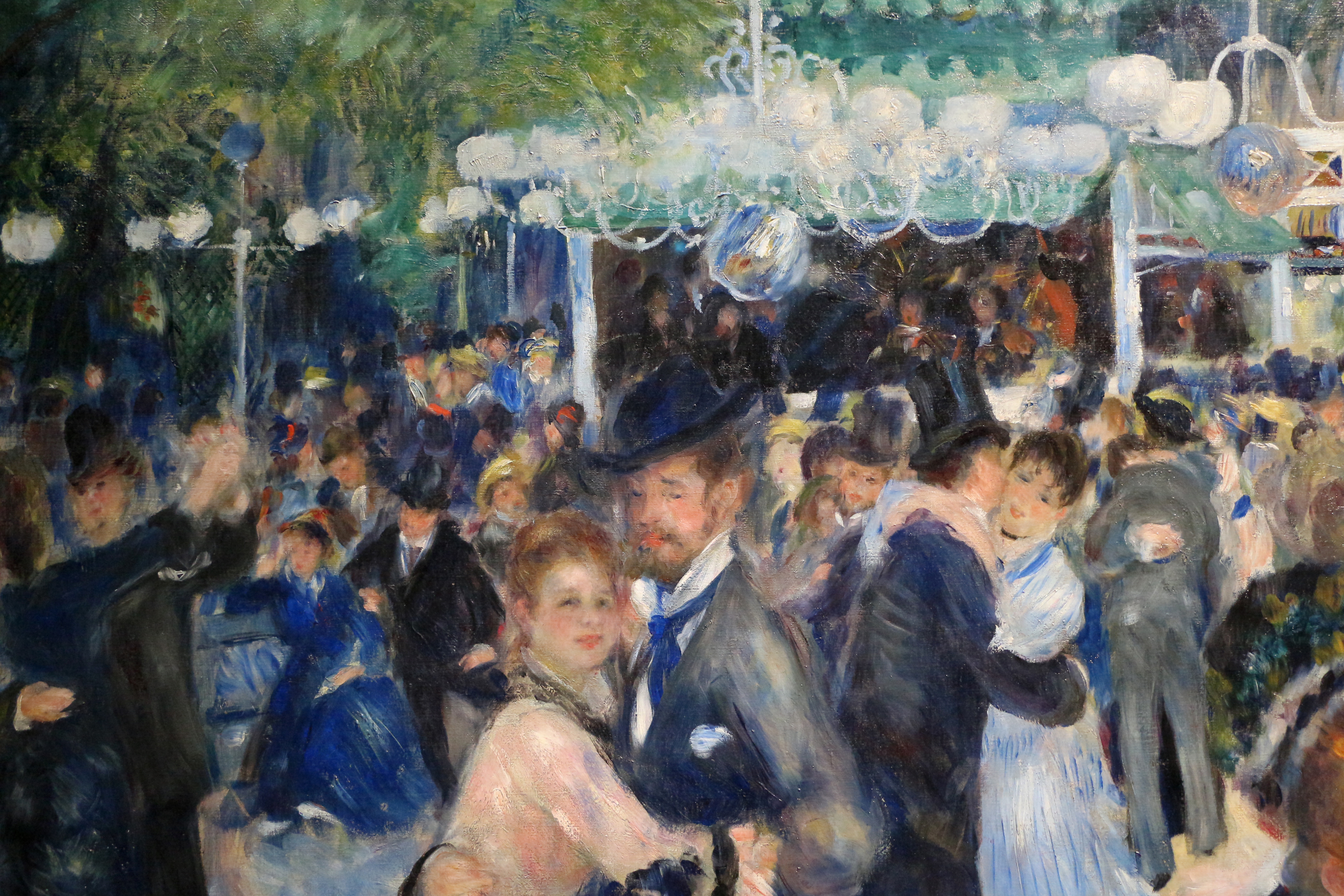 Bal du moulin de la Galette by Renoir